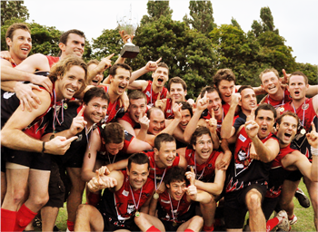 Wandsworth Demons team photo